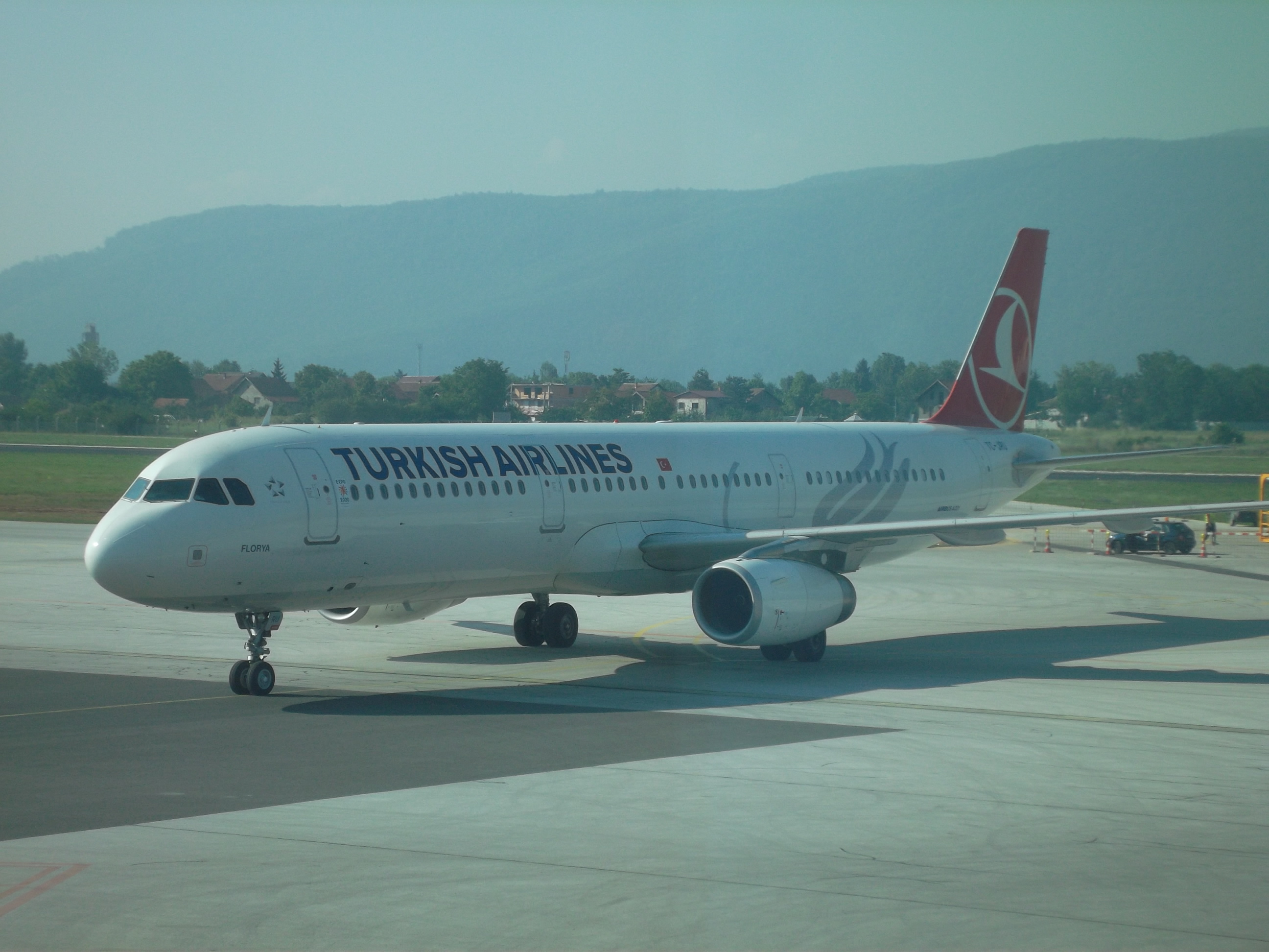 Turkish Airlines A321 at Sarajevo Airport